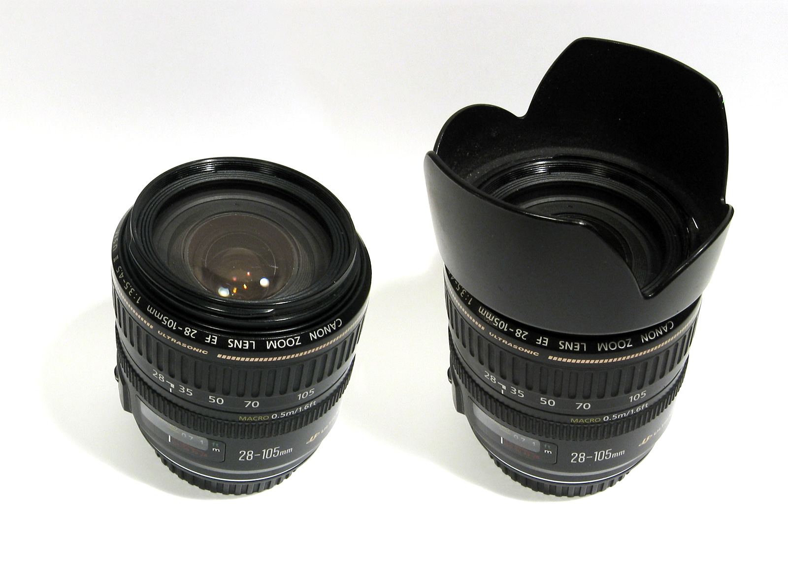 Canon EF 28-105 3.5/4.5 USM II photographic lens with and without lens hood.